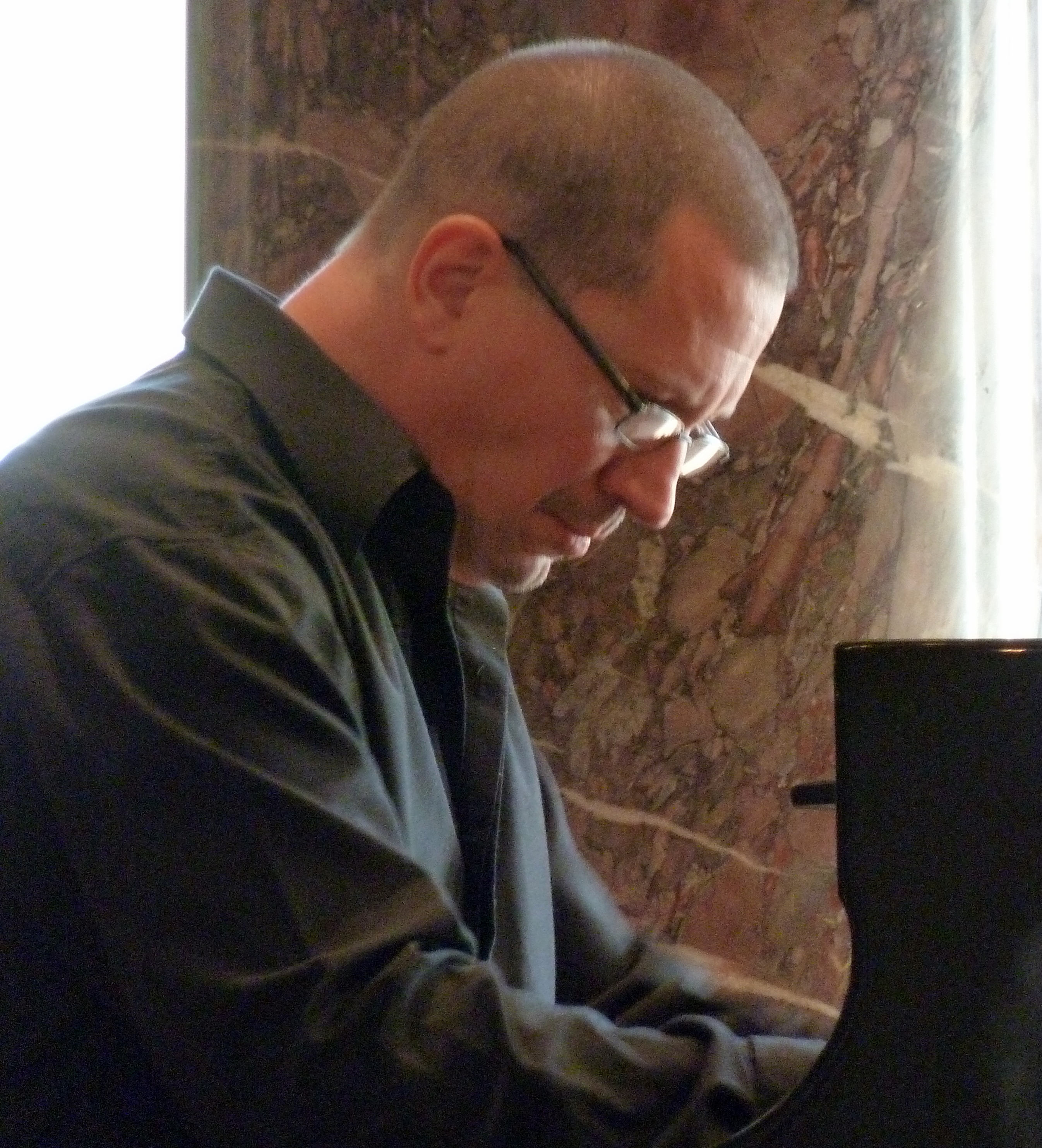 Chris Jarrett, Us-american pianist, piano recital, 2010, october, 04